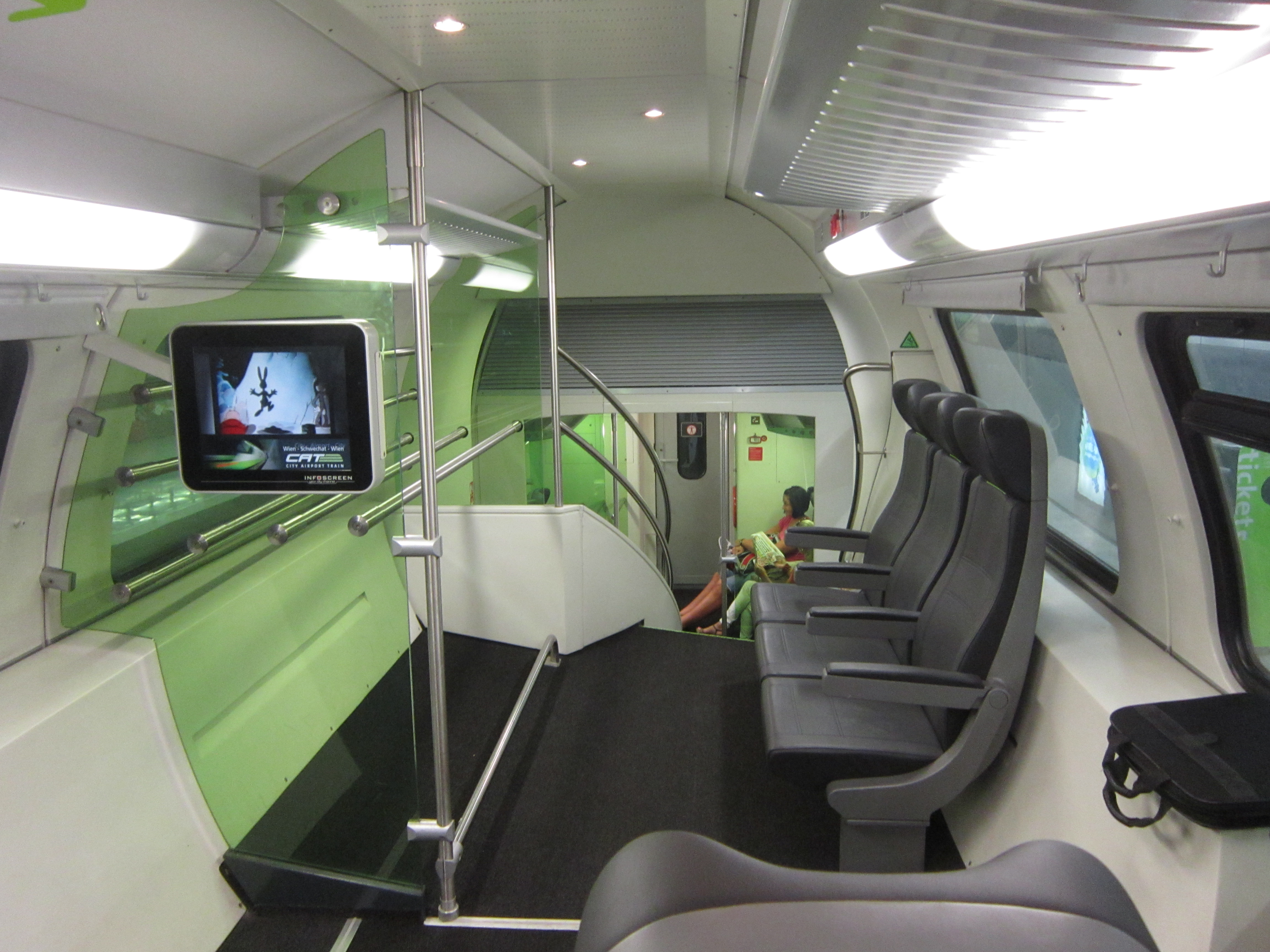 City Airport Train interior